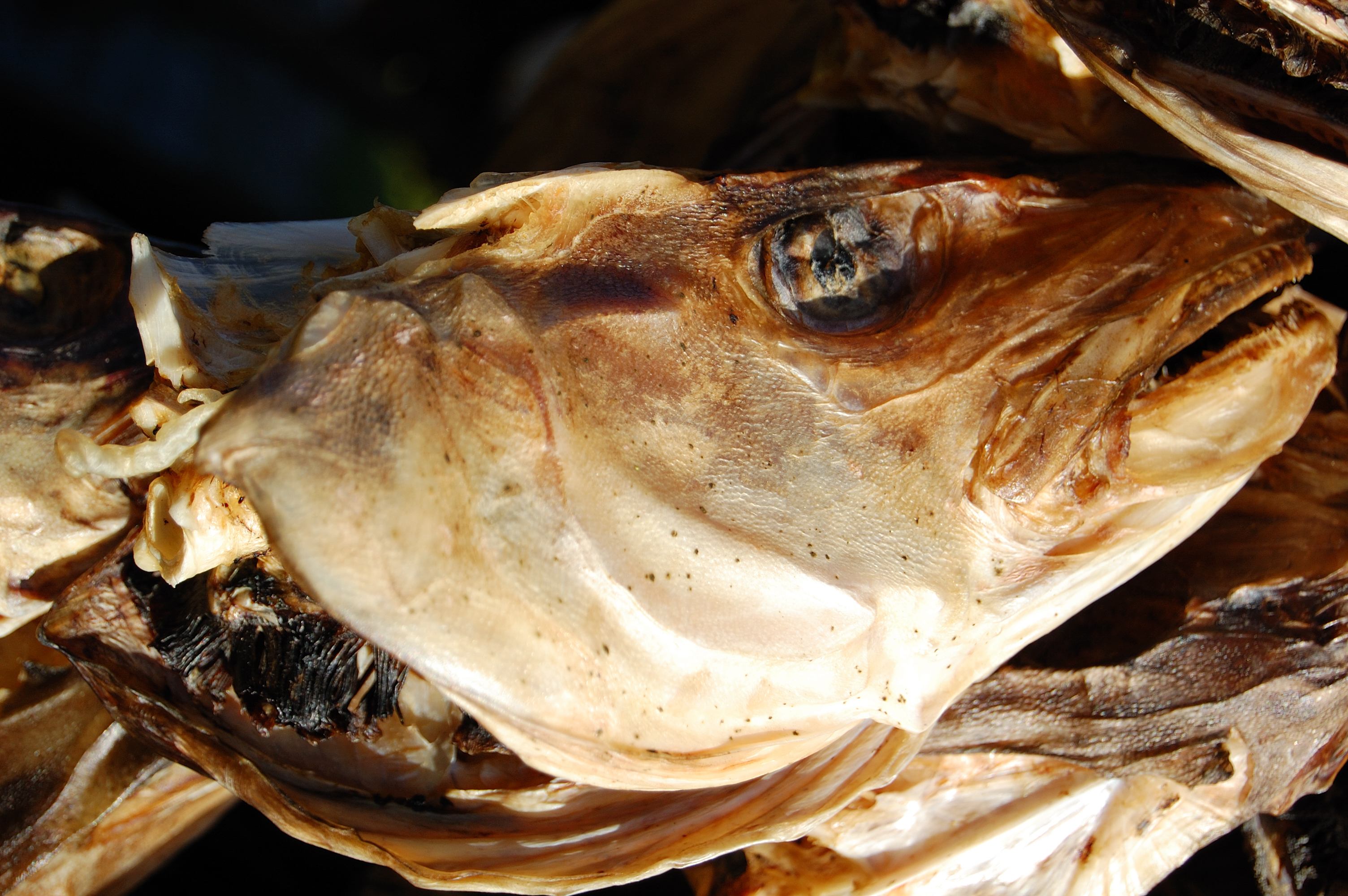 A typical Lofoten stockfish. Taken in 2009.